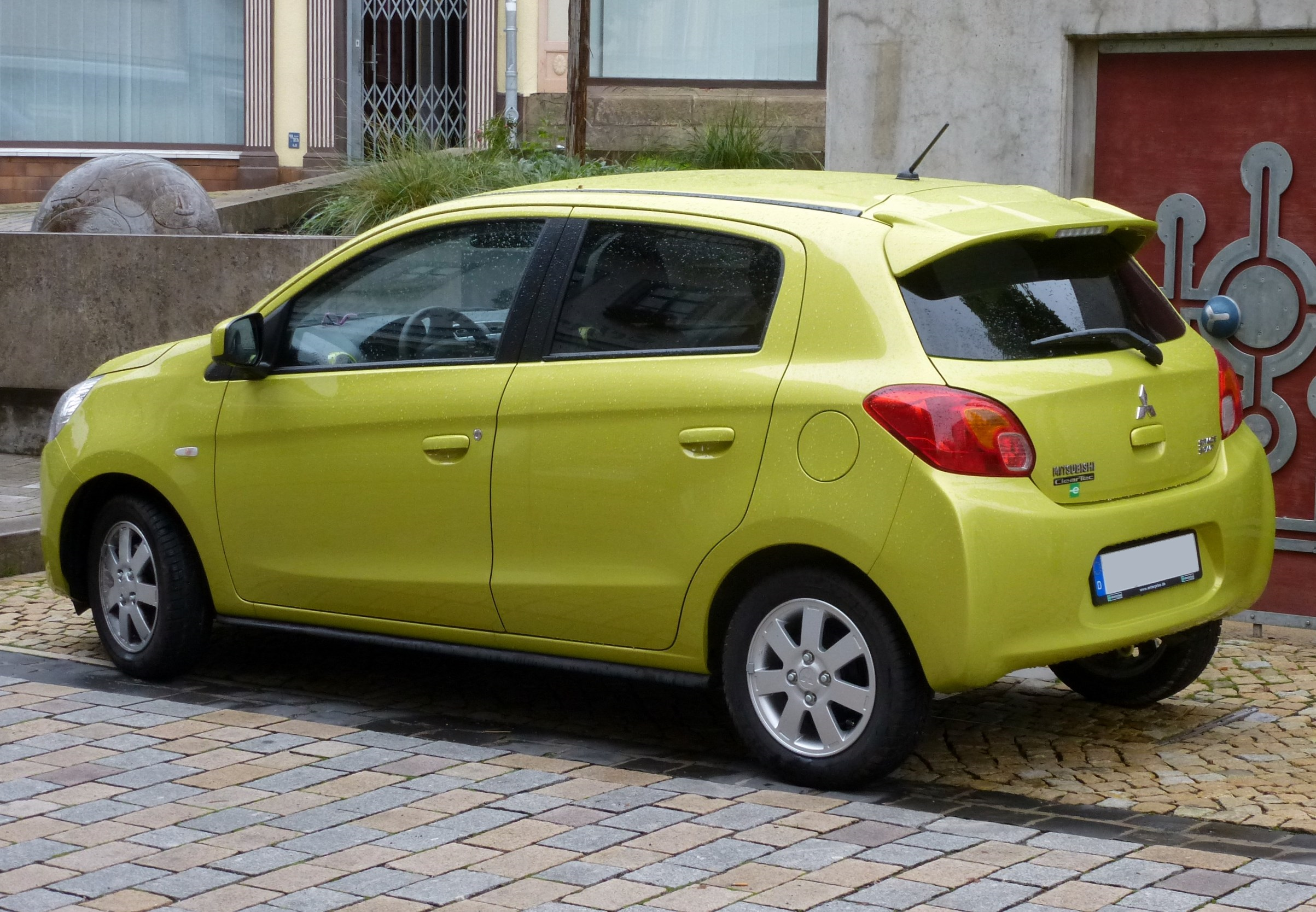 Mitsubishi Space Star